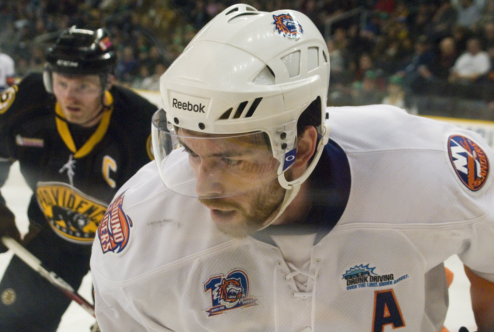 Jeremy Colliton Providence Bruins vs. Bridgeport Sound Tigers. American Hockey League (AHL) Taken by Sarah Connors on March 11, 2011 P-Bruins won in a shootout, 4-3. This photo also appears in Sarah Connors' Flickr Set "Providence vs. Bridgeport 3/12/11" (Set: 96)